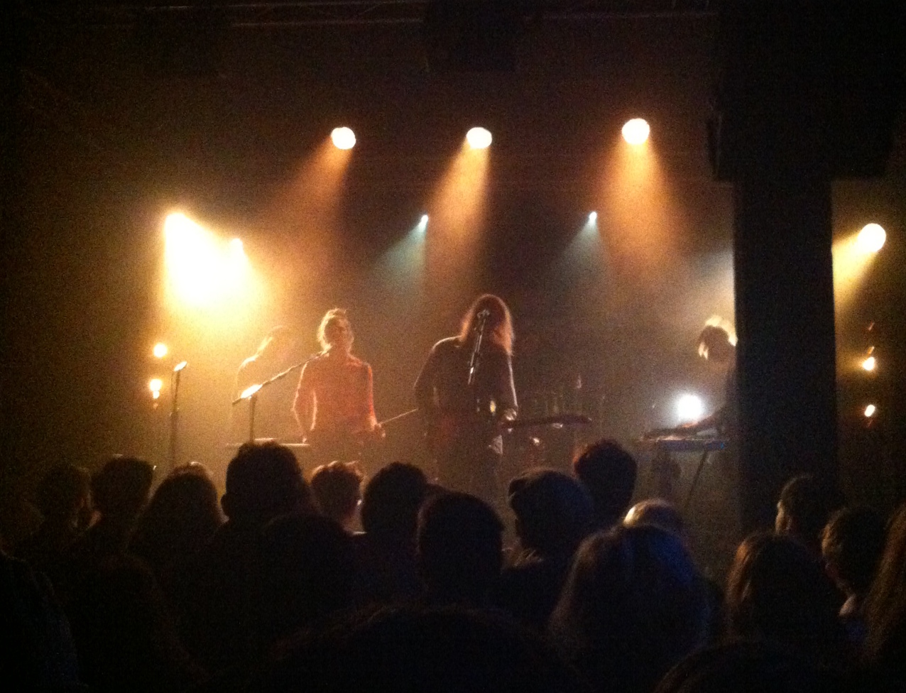 ParisAird'Islande